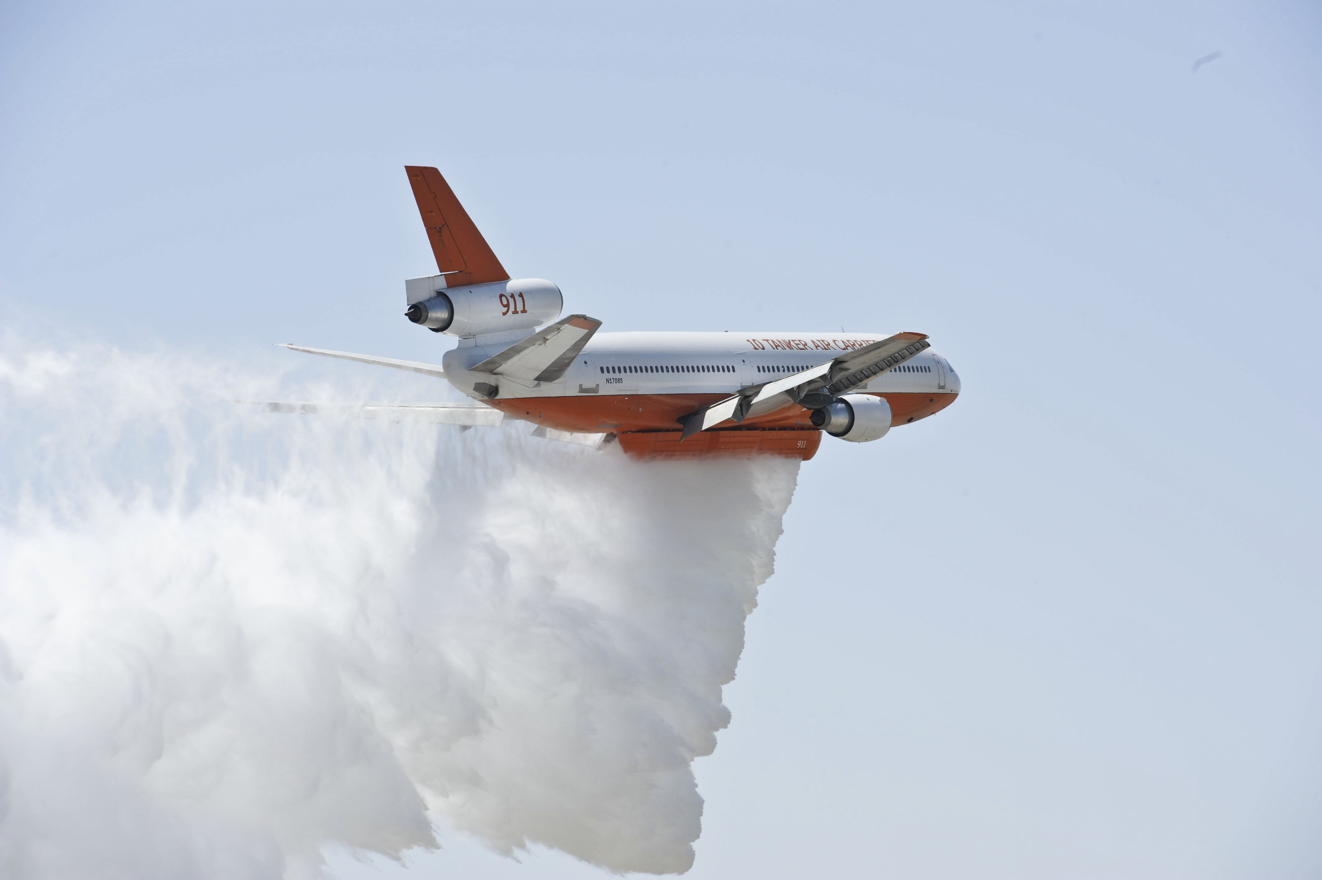 A DC-10 Tanker with the U.S. Forest Service demonstrates a water drop during "Thunder Over The Empire Air Fest" at March Air Reserve Base, Calif., May 19, 2012. Air Fest 2012 features military and civilian ground and aerial demonstration during a two-day show.